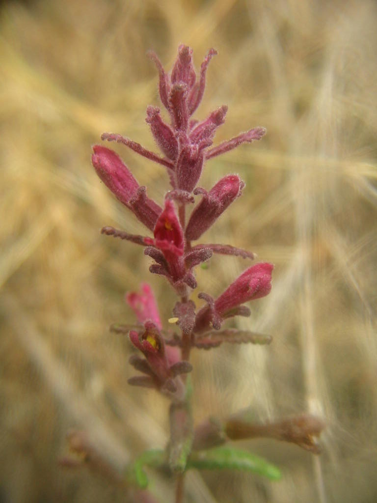 Bartsia chilensis, Cuesta de Balmaceda, Región de Valparaíso, Chile